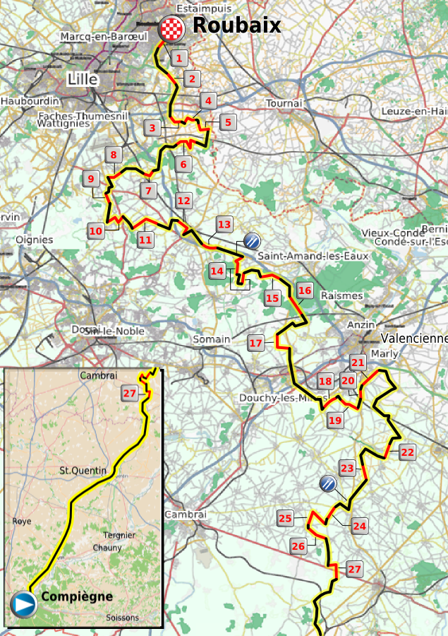 Route Paris- Roubaix 2011